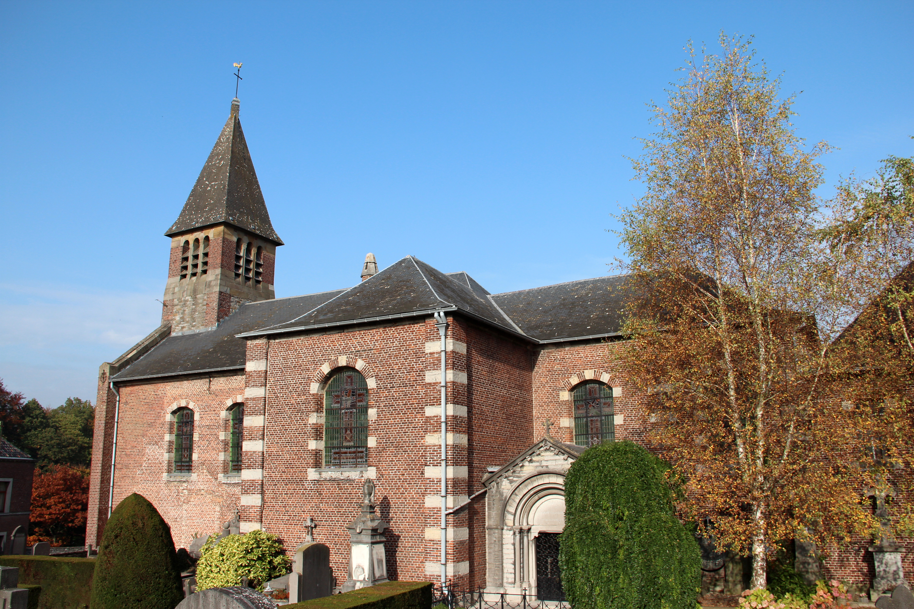 Chercq (Belgium), the church of Saint Andrew (1772).